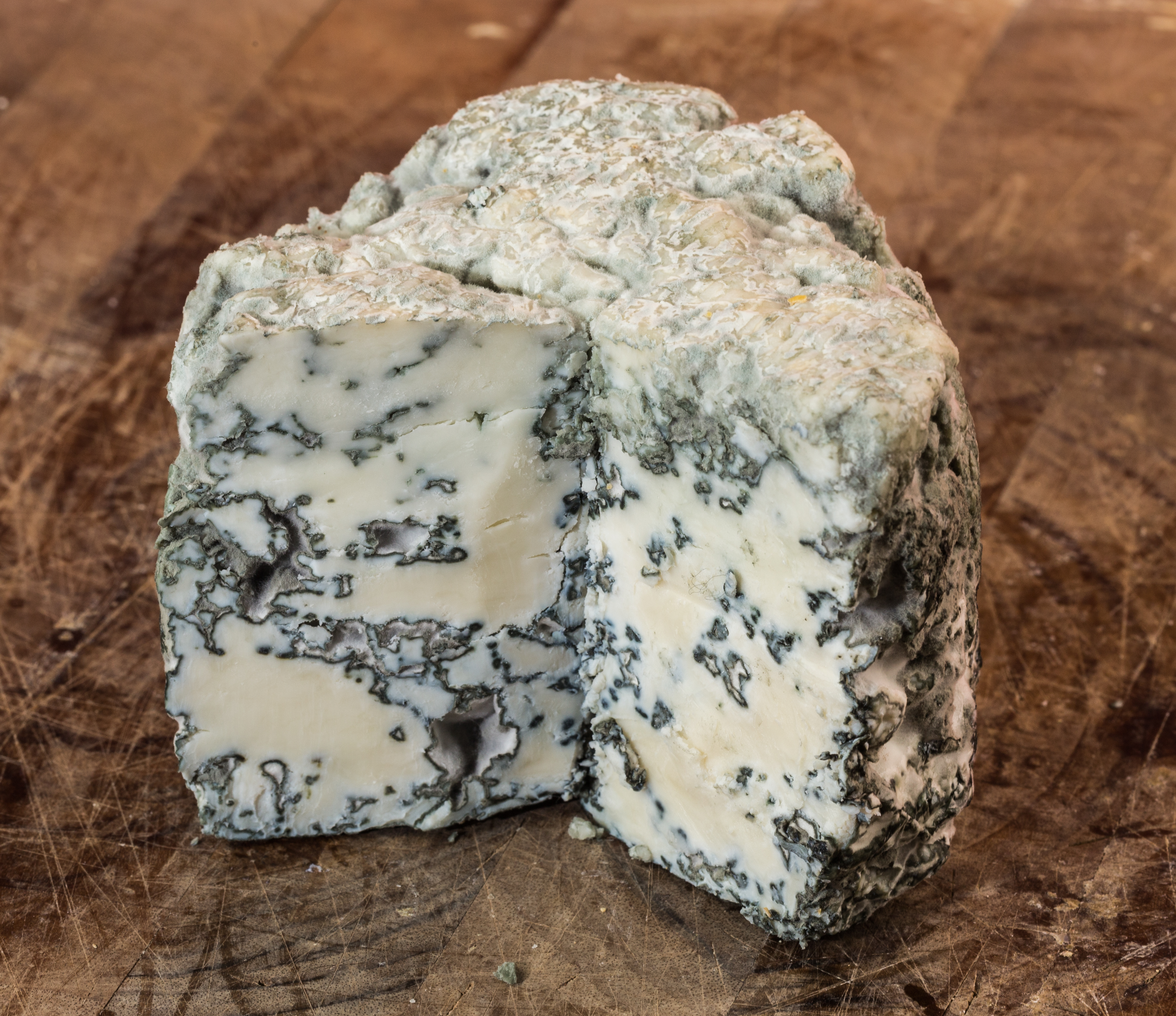 Blue cheese from thermized goat milk (61°), aged 5 to 8 weeks Origin Toggenburg, St. Gallen - Maître fromager affineur Willi Schmid, Städtlichäsi, Lichtensteig, Toggenburg